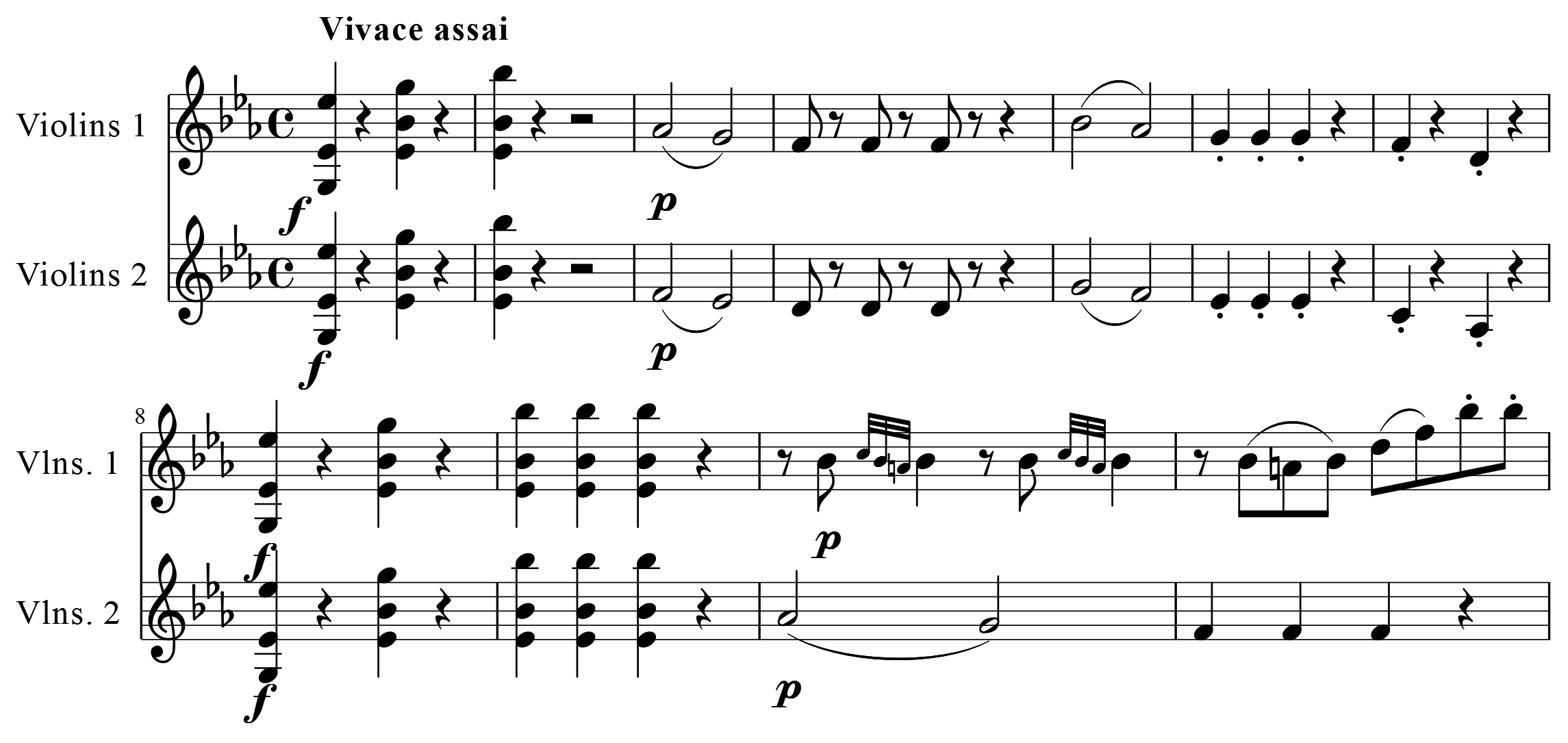 Joseph Haydn, Symphony No. 74, first movement, bar 1-11